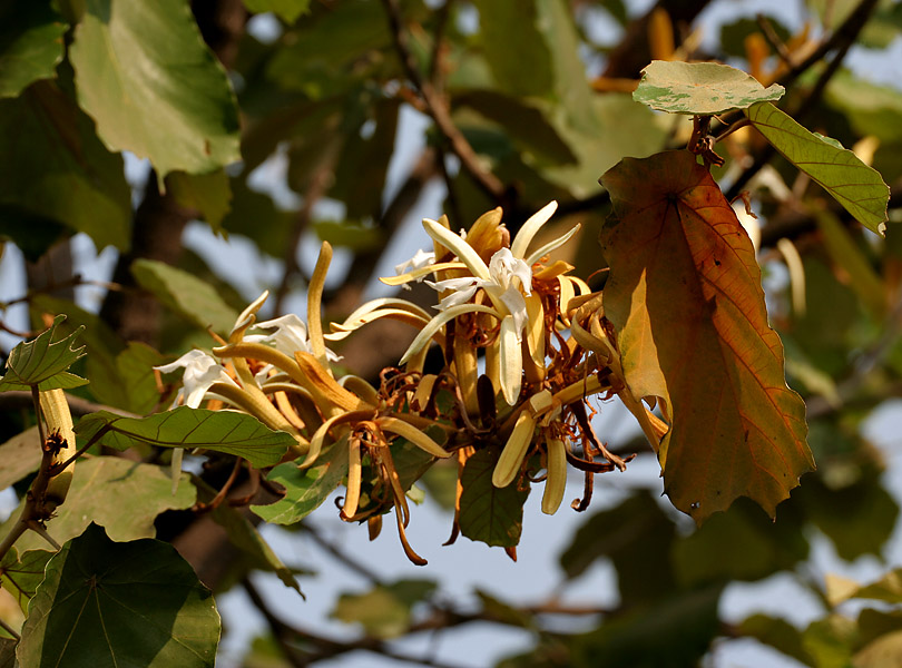 Pterospermum acerifolium - Kanak Champa, Moochukund, Bayur tree, Dinner Plate Tree, Karnikar Tree or Maple-Leafed Bayur Tree near Hyderabad, India.